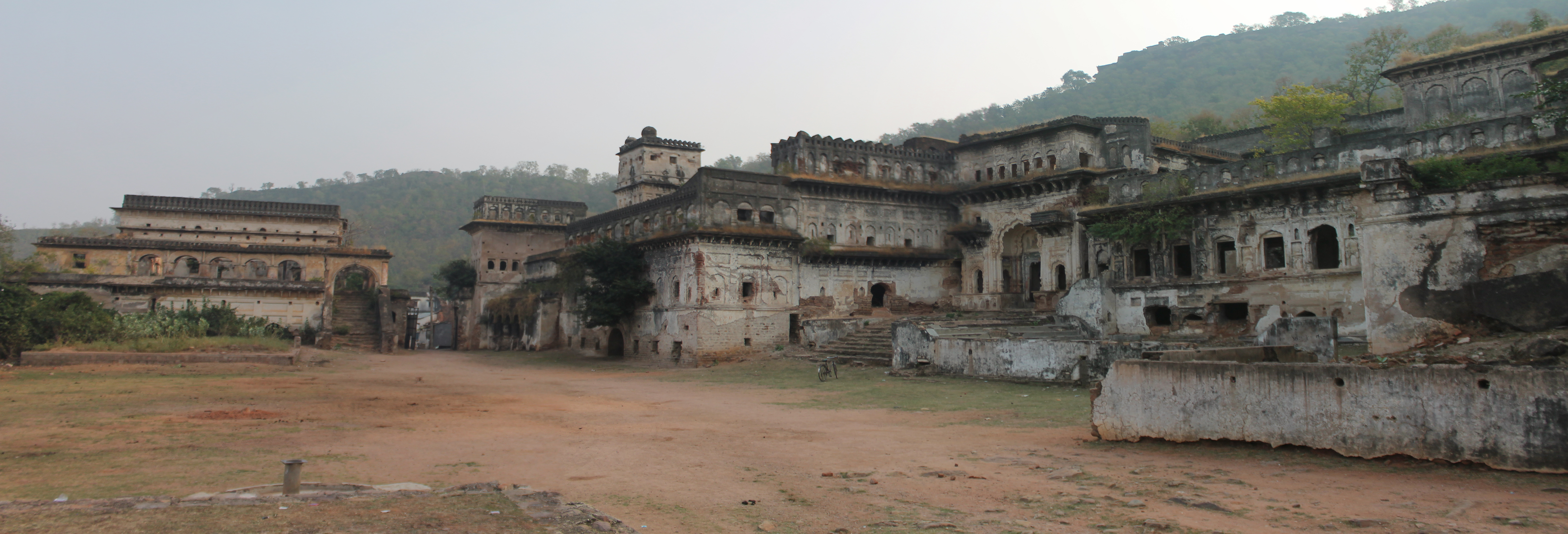 Panoramic view of Ajaygarh Palace